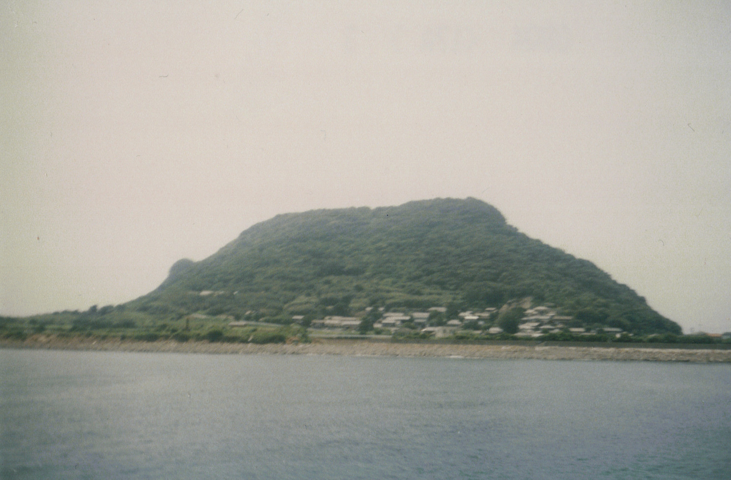 Takashima Island, general view, Nagasaki Ken, Japan